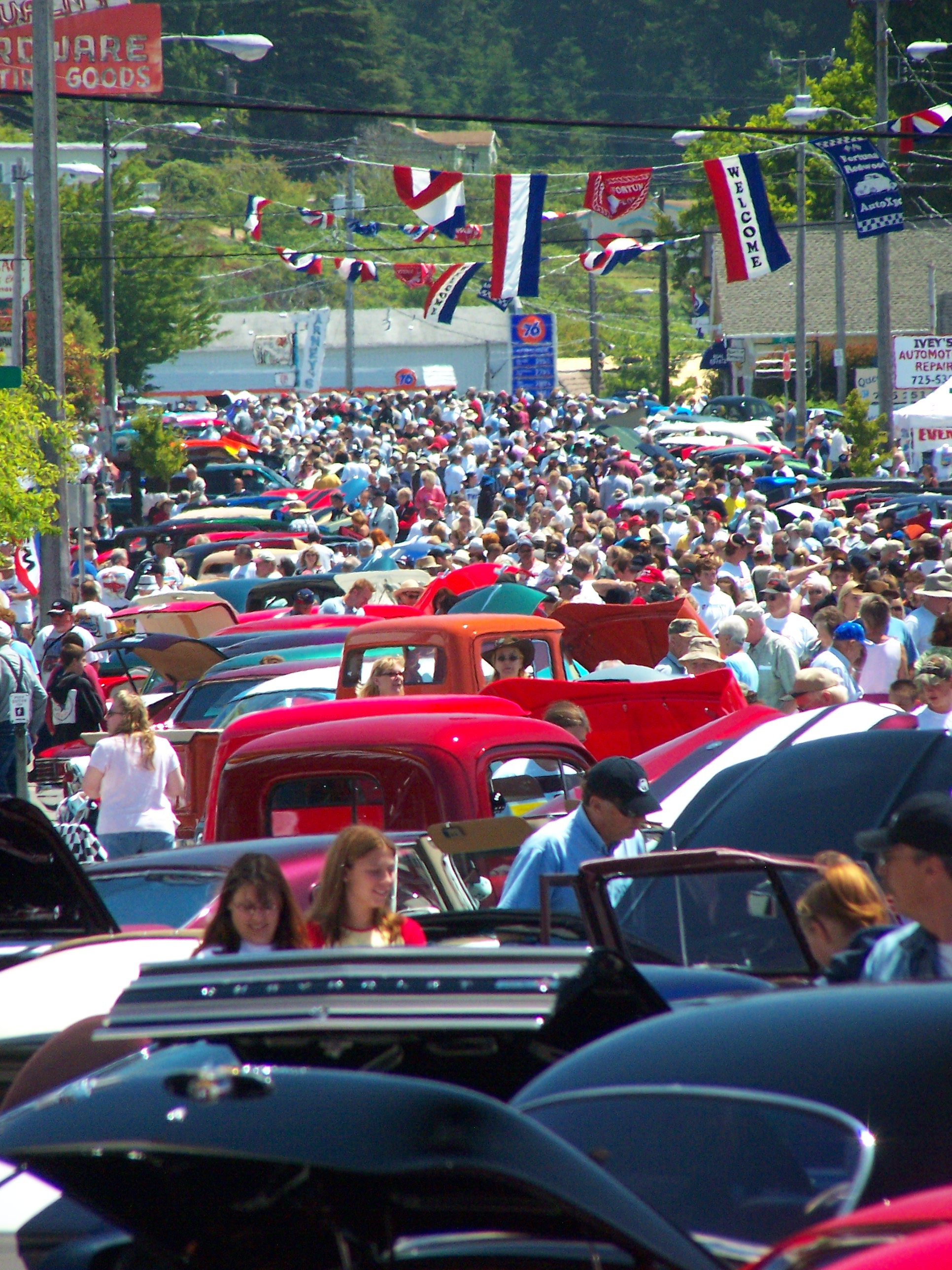 A photo I (Hans Koster) took at the 2005 Fortuna Redwood AutoXpo.